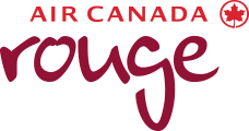 Logo of Air Canada Rouge